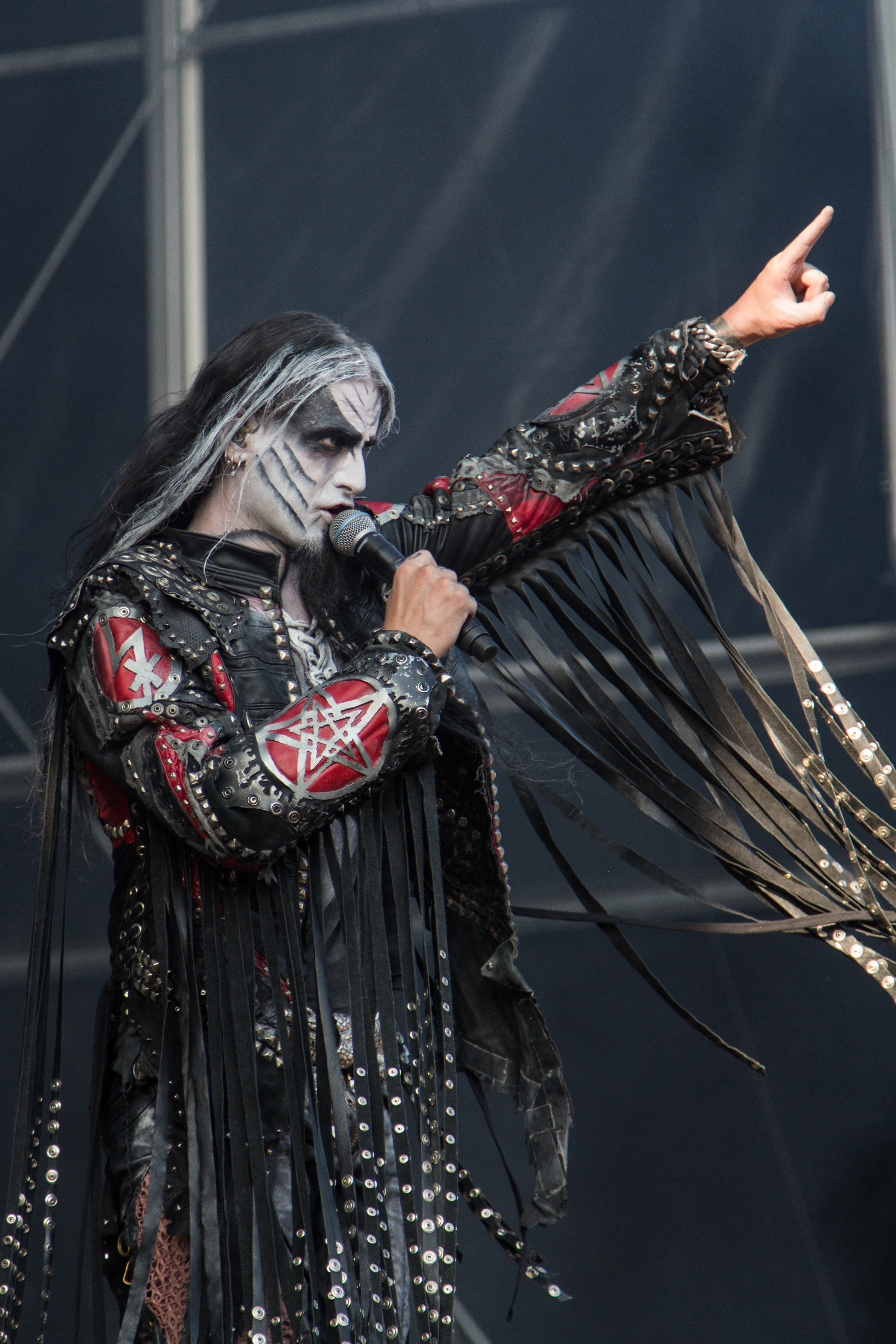 Stian Tomt "Shagrath" Thoresen from Dimmu Borgir at the See-Rock Festival 2014